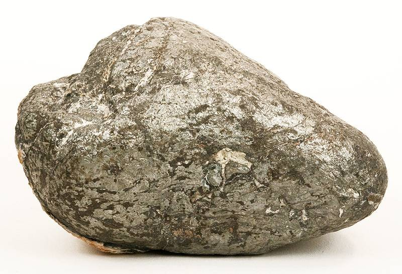 Antimony Locality: Antimony Peak deposit, Antimony Peak, San Emidio, Kern County, California, USA (Locality at ) Size: 9 x 7 x 5 cm. A really hefty nugget of solid, pure antimony from a classic old US locale. These turn up in museum collections, this one in fact being an exchange out of a major old collection assembled in the late 1800s and early 1900s (T.H. Cole). Weighs 869 grams.